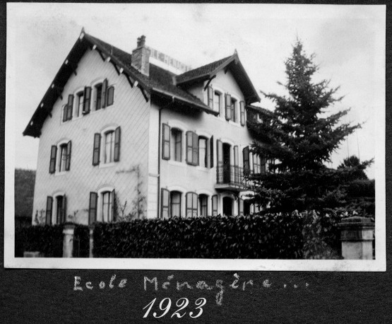 School in Yvonand, Vaud, Switzerland in 1923